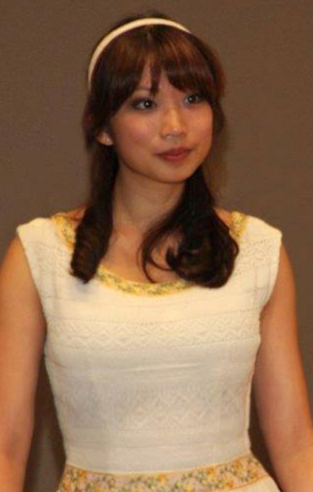 Amanda Joy at the premiere of Devil's Mile in Montreal, Canada